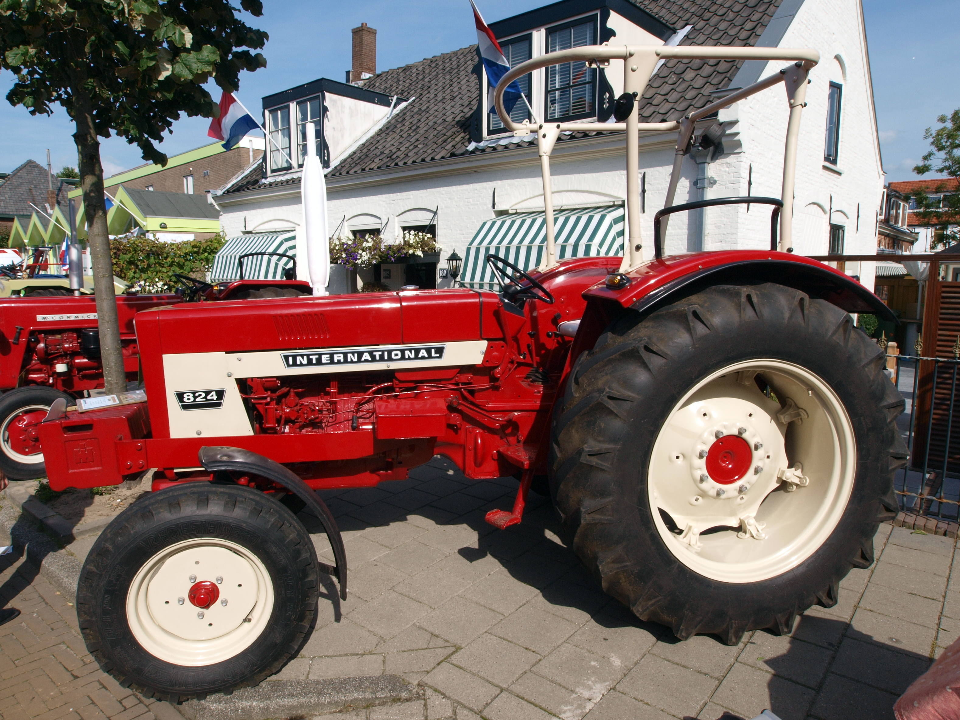 International 824